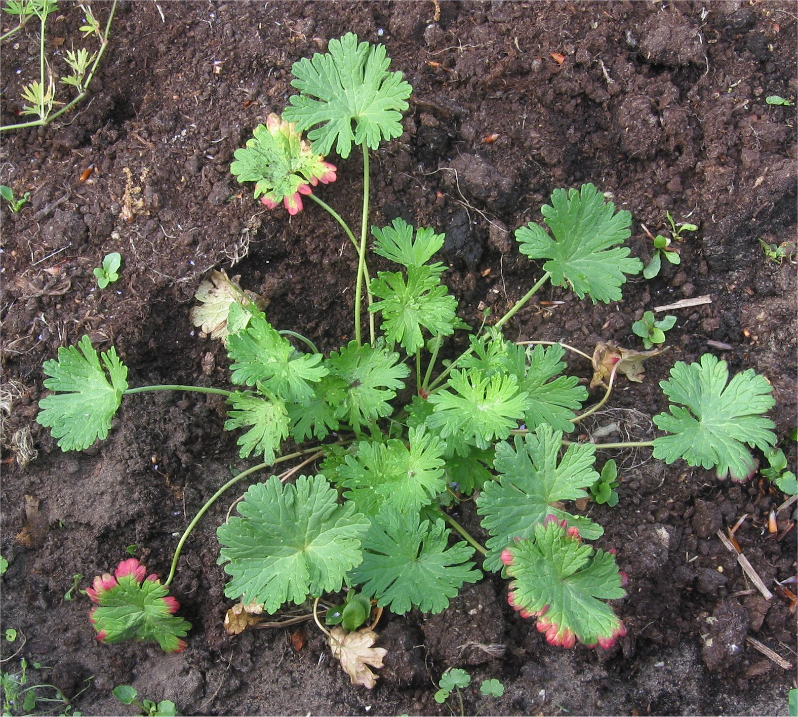 Geranium pusillum